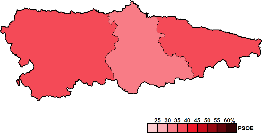 District results for the 2012 Asturian regional election.